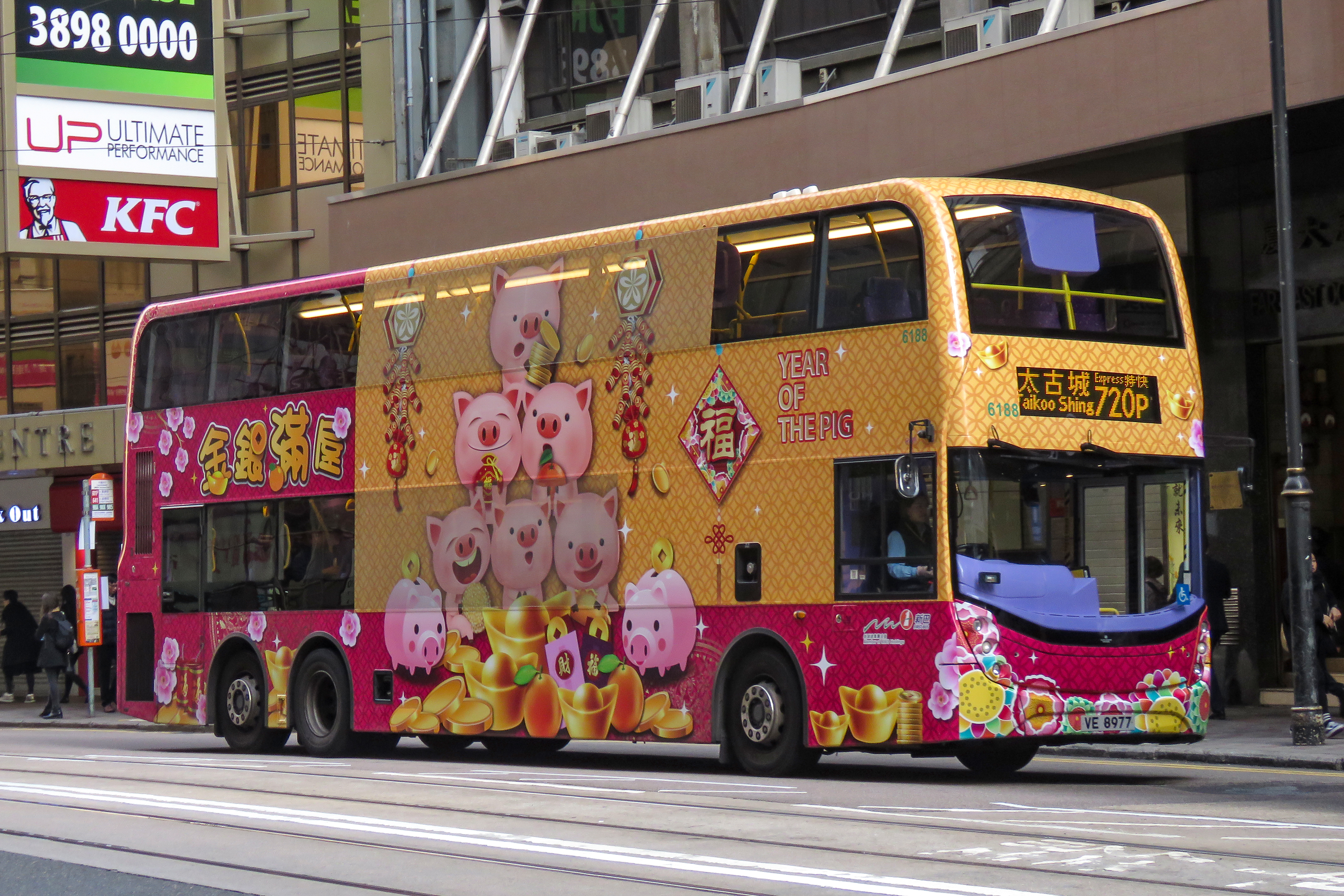 NWFB "Year of the Pig" in 720p format? Having captured B-1080 previously, I've collected both 720p and 1080p in terms of transport... yet there's also a 8K at Yangsan station!